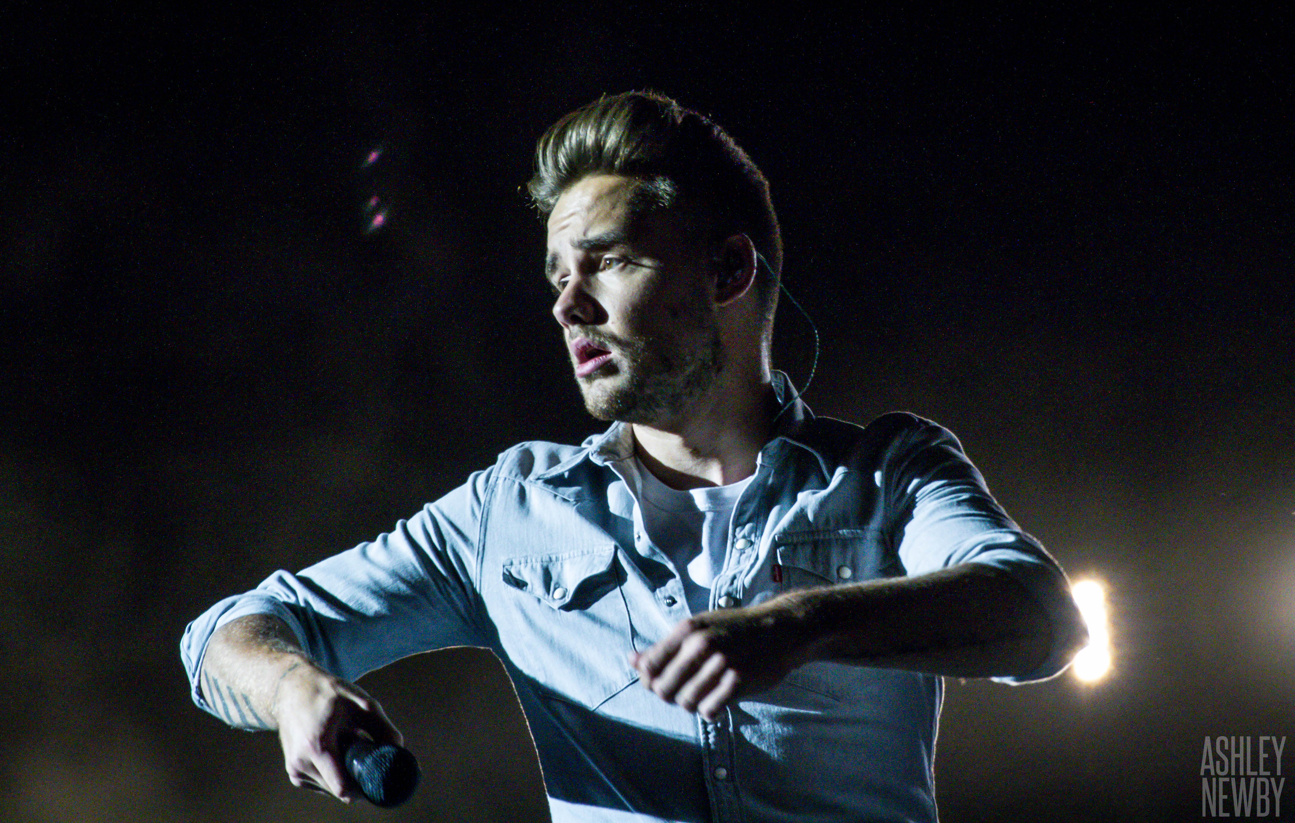 One Direction August 23, 2015 Soldier Field Chicago, IL